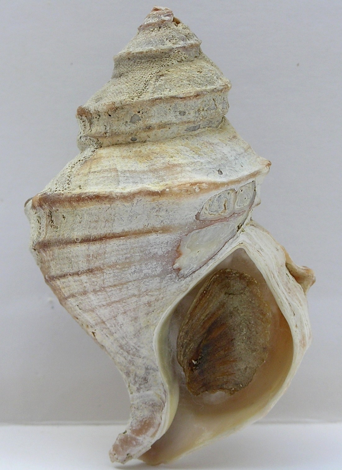 Neptunea communis clarki (Meek, F.B., 1923) , a true whelk in the family Buccinidae